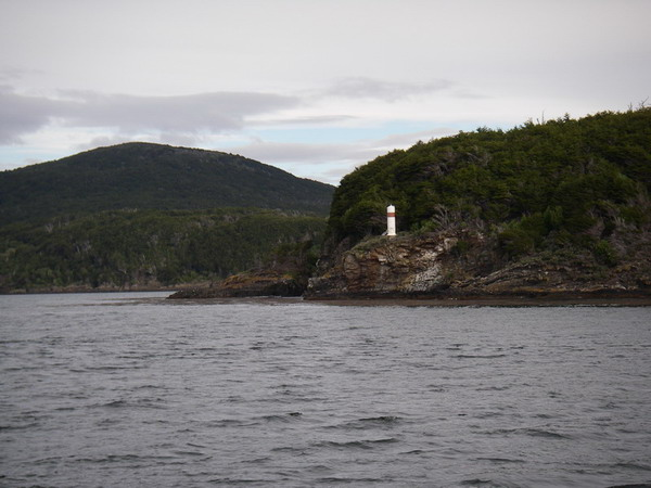 Picture of isla gardiner in front of isla picton, tierra del fuego (argentina), east entrance of beagle channel. Picture is made by myself (march 2006).